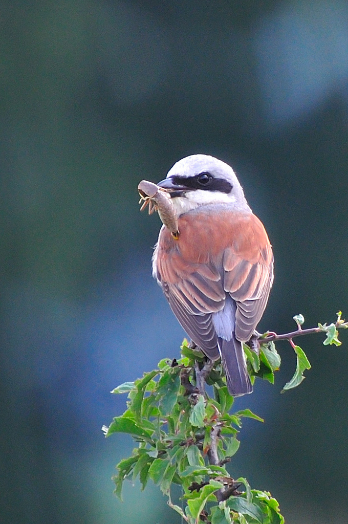 A male Red-backed Shrike in Ariege, Midi-Pyrenee, France. It has an insect in its beak.